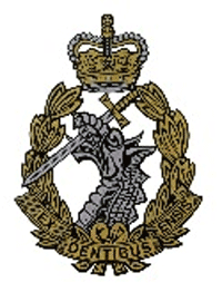 Cap badge of the Royall Army Dental Corps